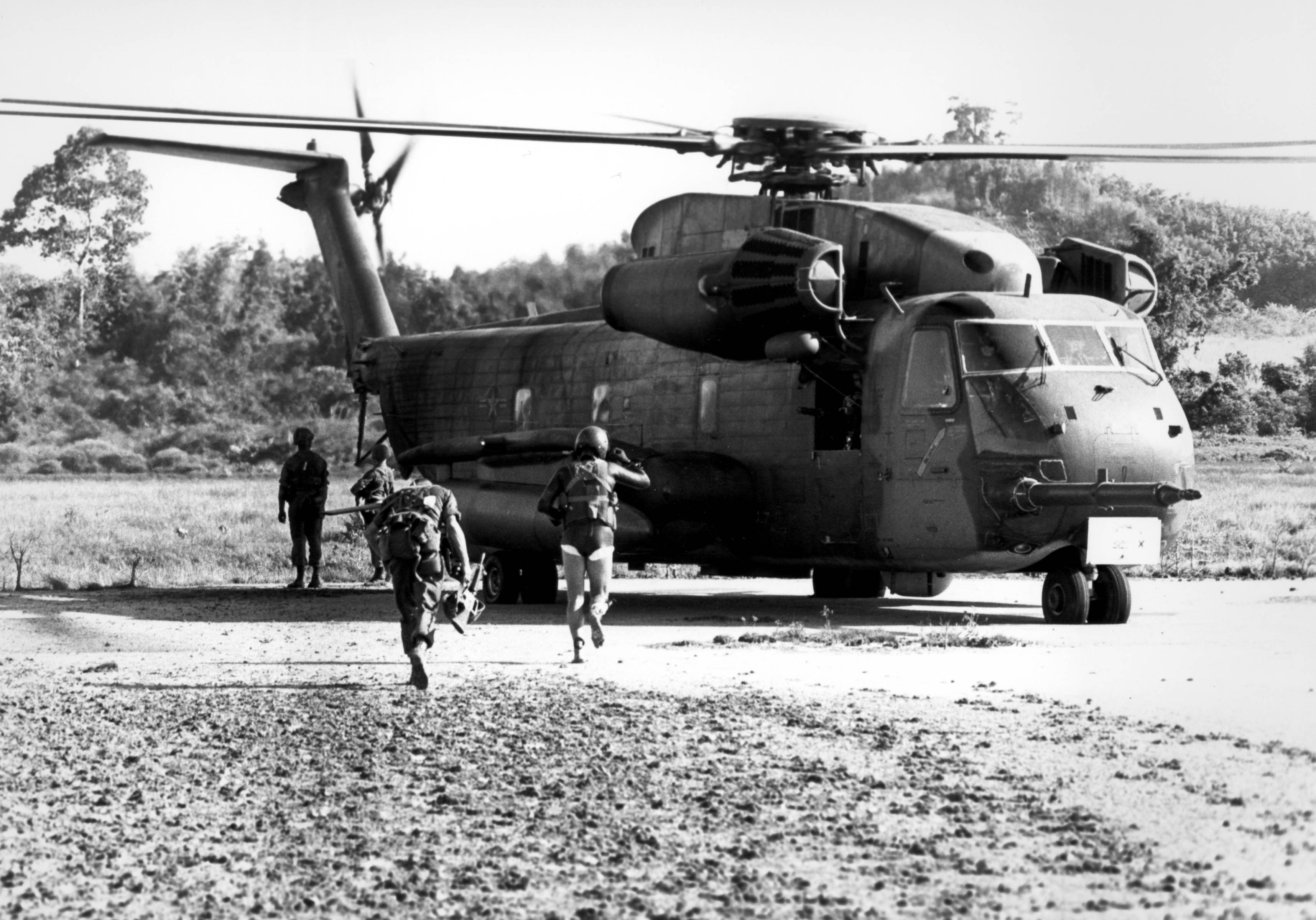 A Marine and Air Force pararescueman Stu Stanaland of the 40th Aerospace Rescue and Recovery Squadron (in wet suit) run for a U.S. Air Force Sikorsky HH-53C Jolly Green Giant helicopter during the assualt on Koh Tang Island to rescue the U.S. Merchant ship Mayaguez and its crew, 15 May 1975.